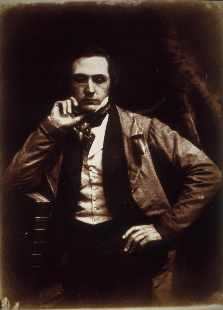 James Drummond, 1816 - 1877. History painter; curator of the National Gallery of Scotland